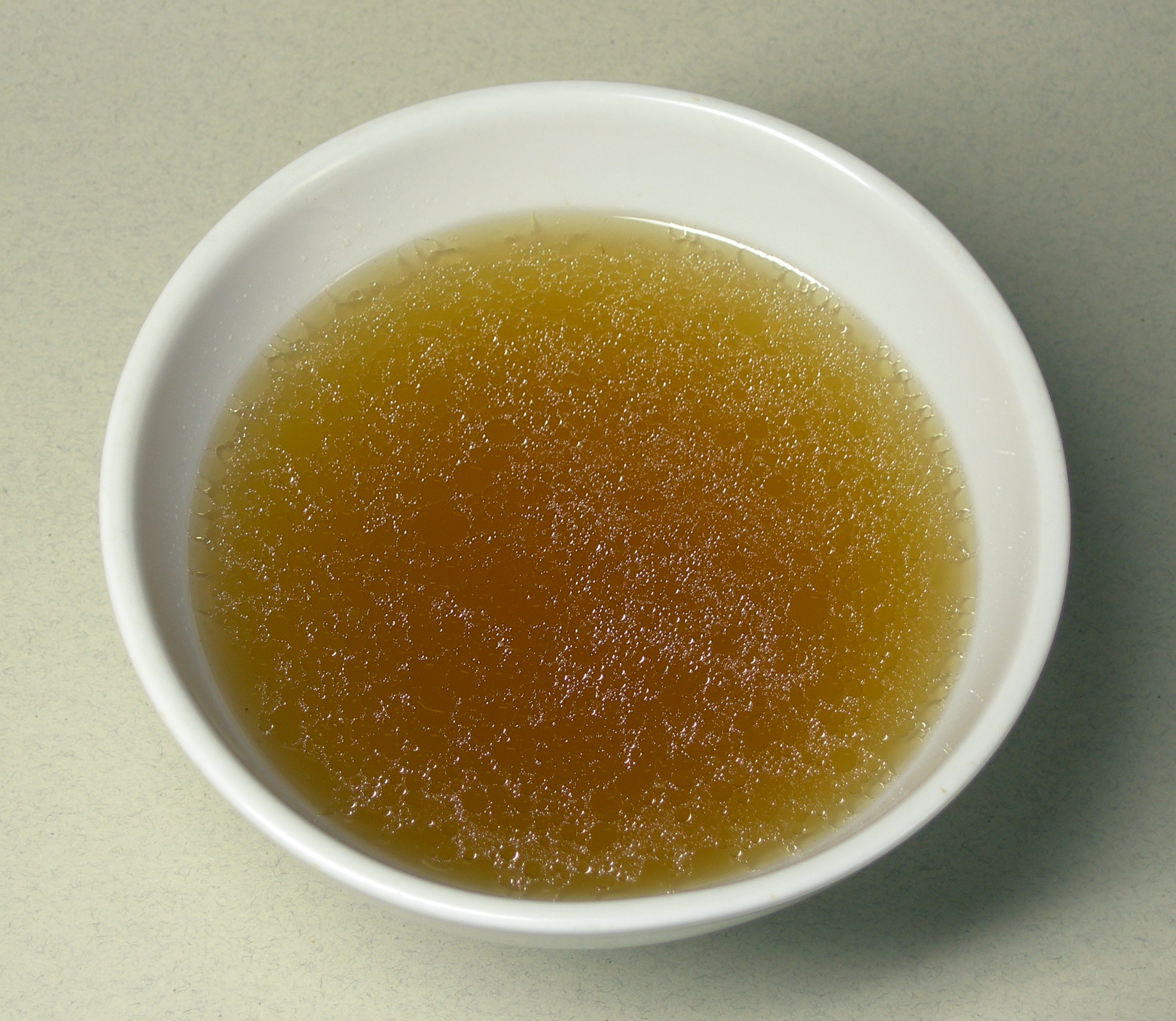 Consommé, a concentrated broth from beef, minced meat and vegetables